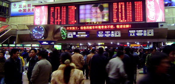 Interior of Beijing West railway station in Beijing, China.